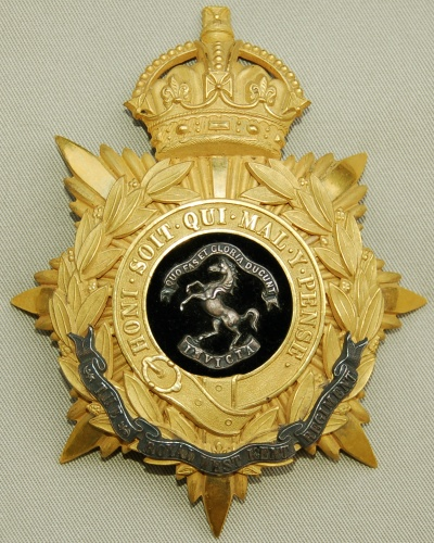 Photograph of a helmet plate of the Royal West Kent Regiment.